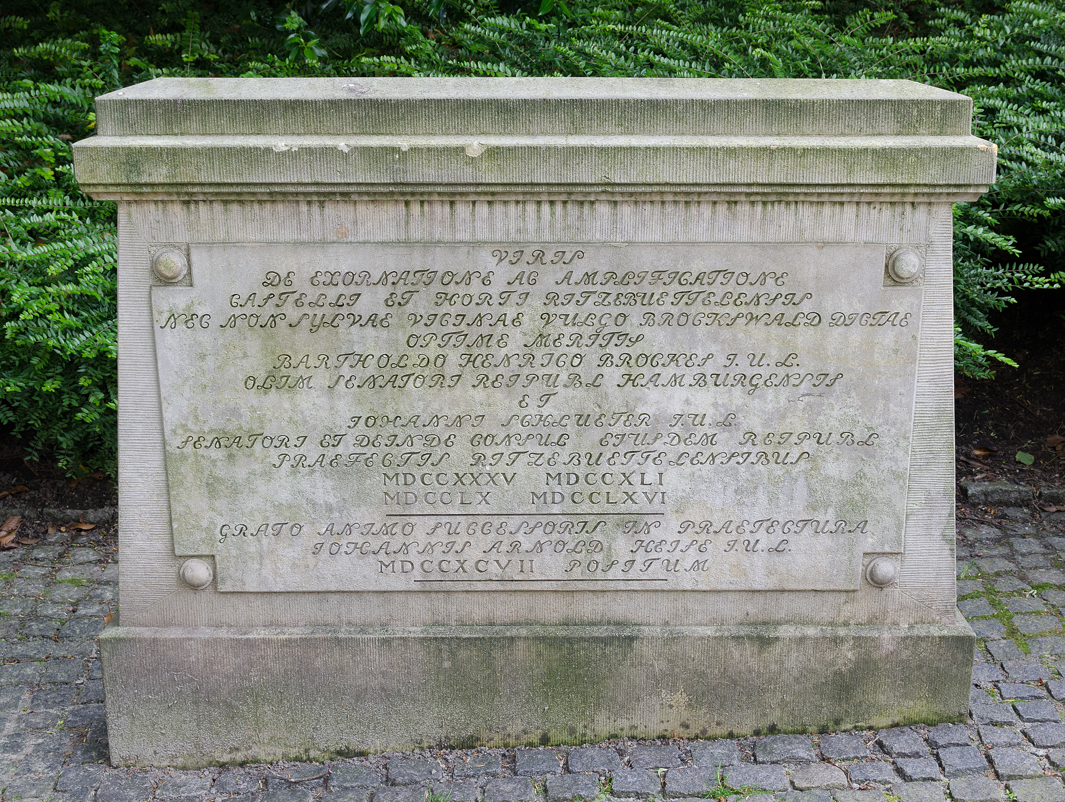 Memorial tablet on the yard of Ritzebüttel Castle in Cuxhaven